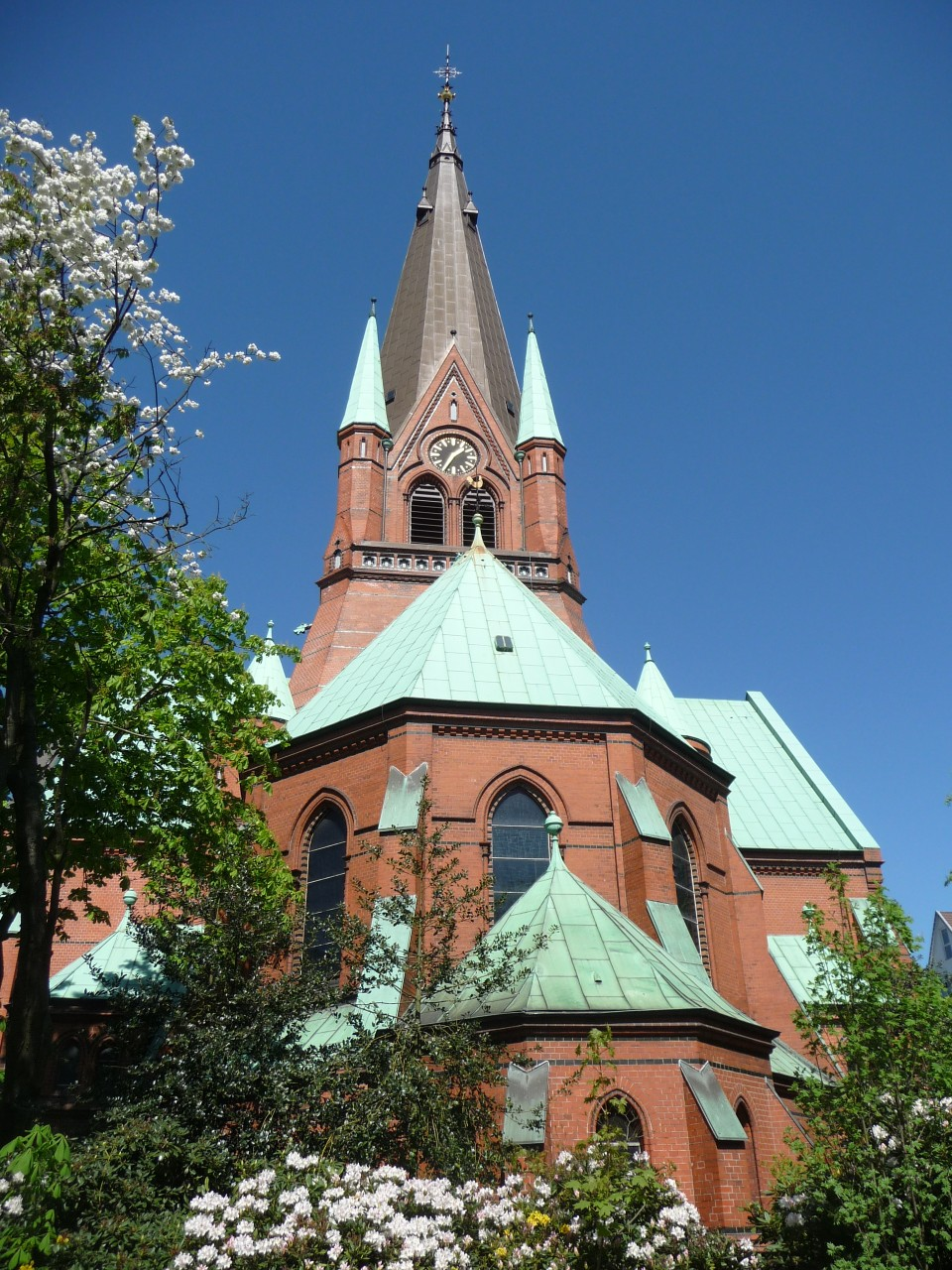 Cross Church in Hamburg-Ottensen